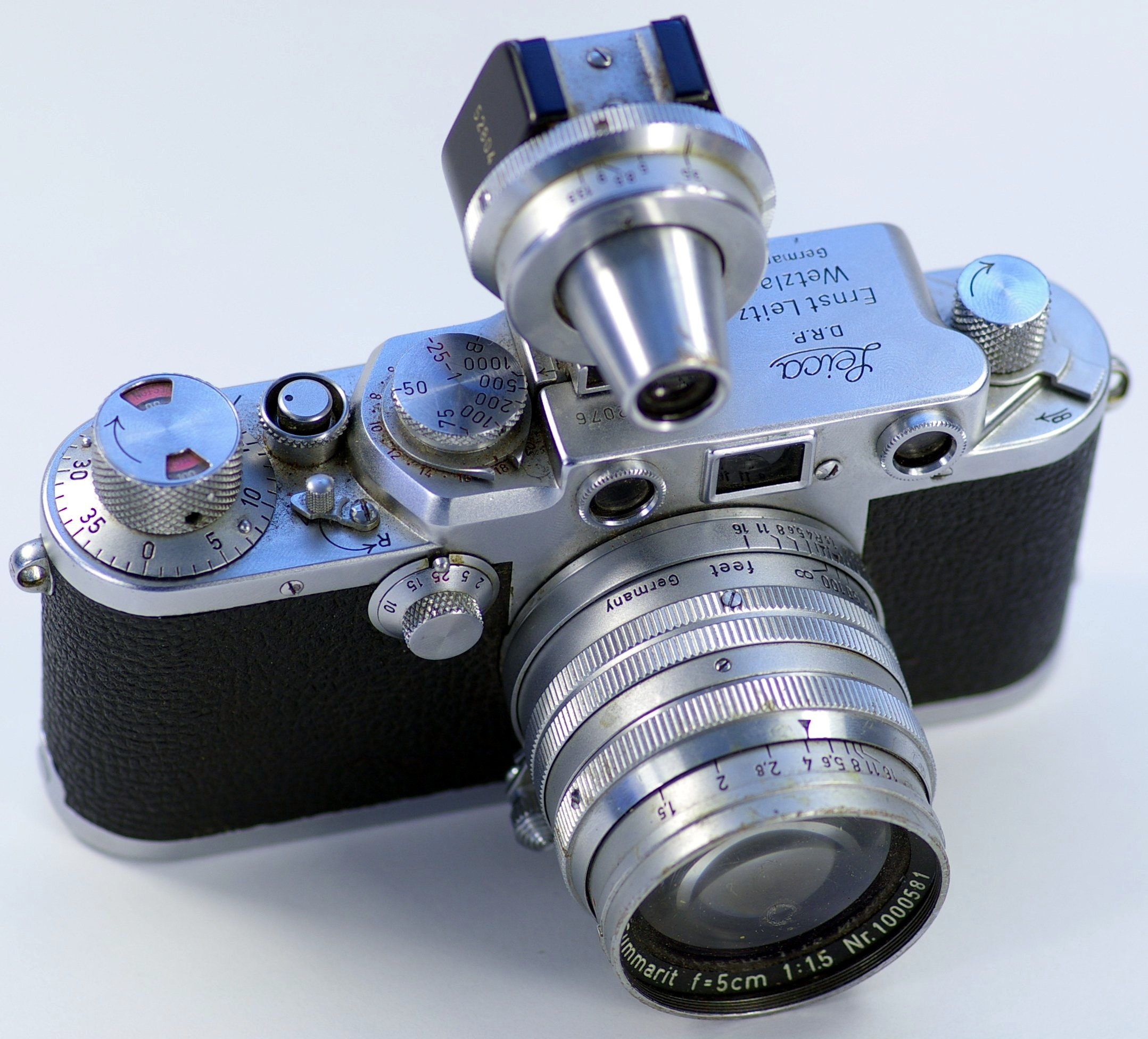 A Leica IIIf rangefinder camera with a Summarit 50mm f/1.5 lens on it, and the external viewfinder